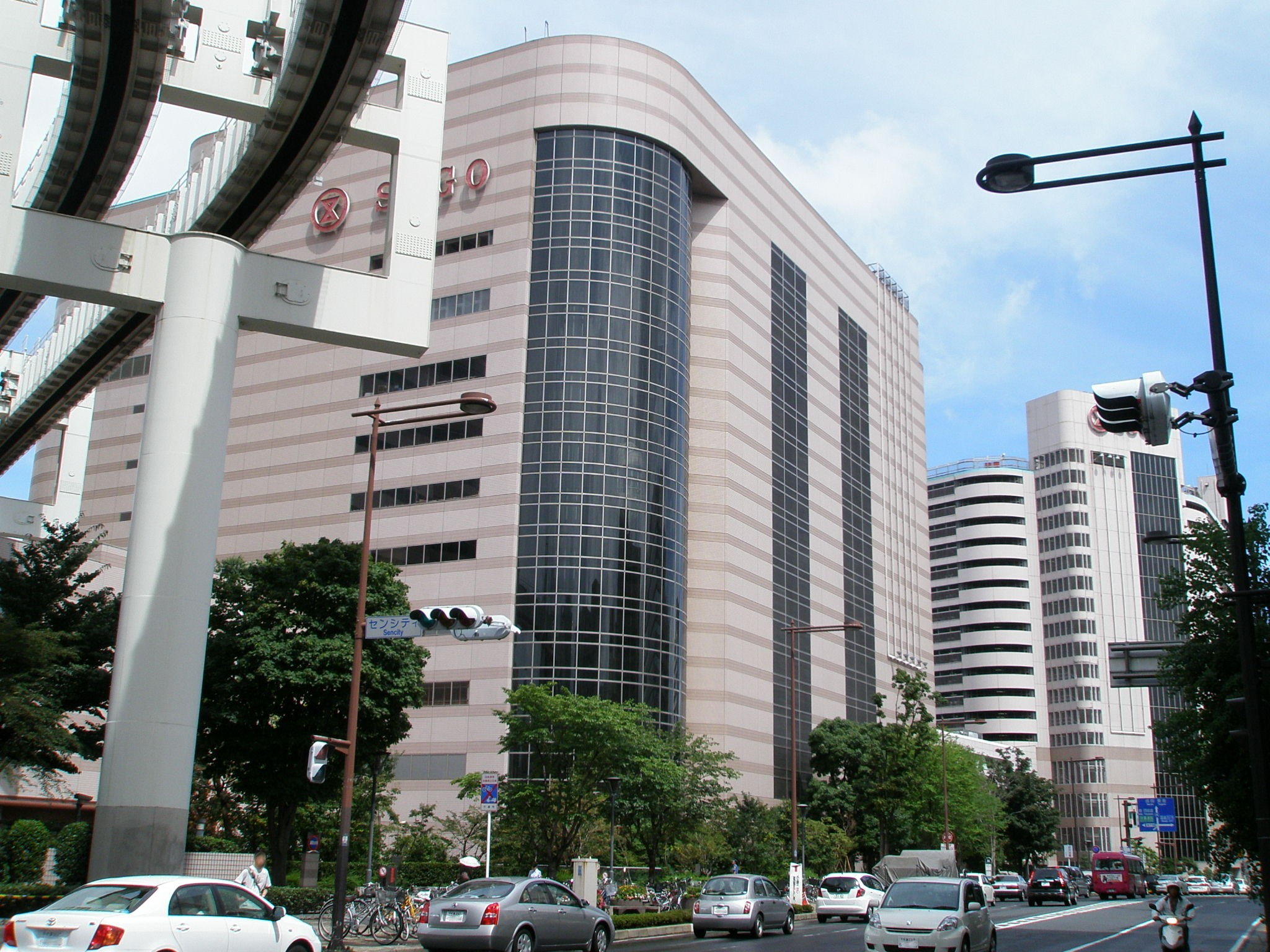 Sogō Department Store Chiba shop.